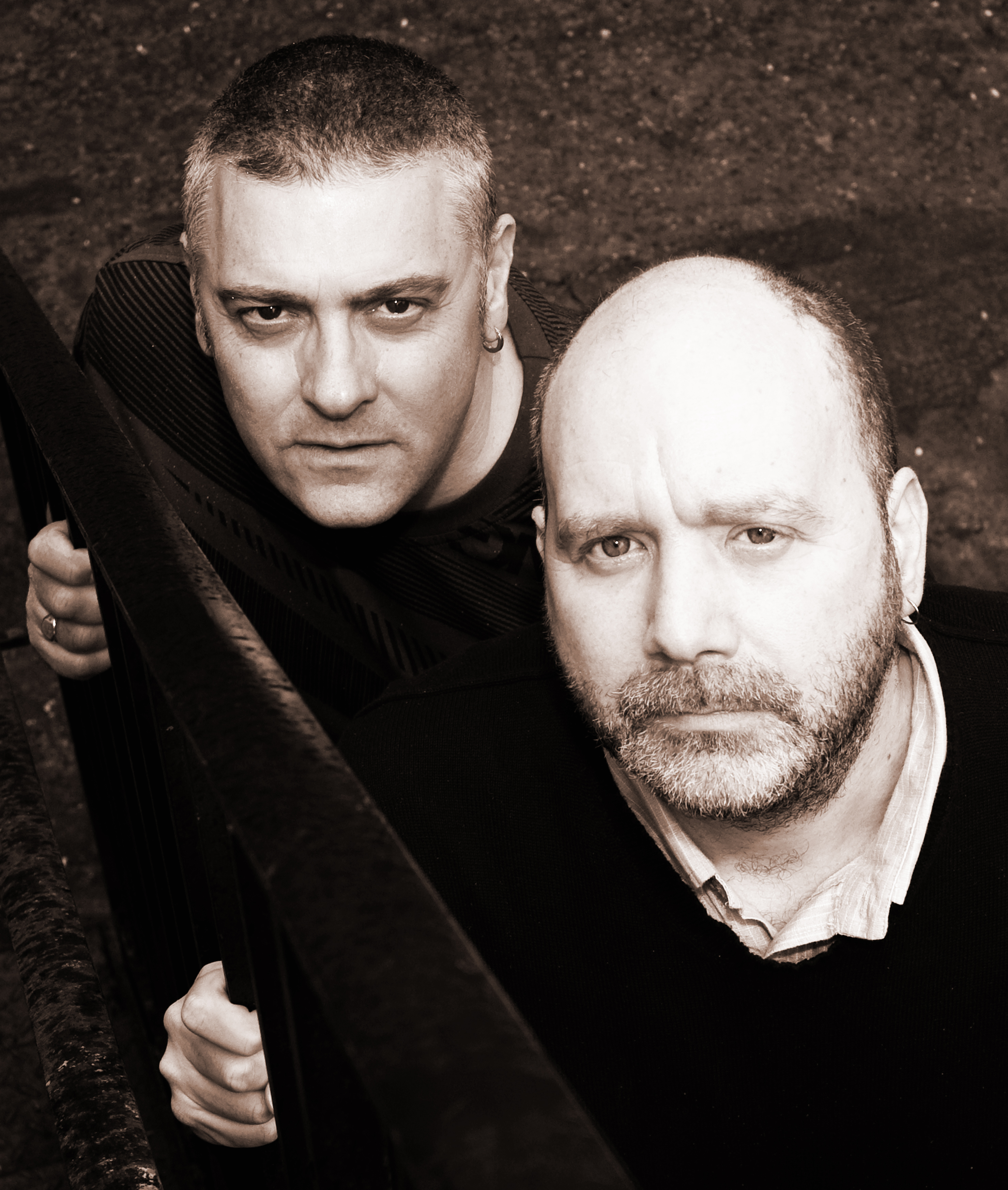 Sounds From The Ground Woolfson & Jones